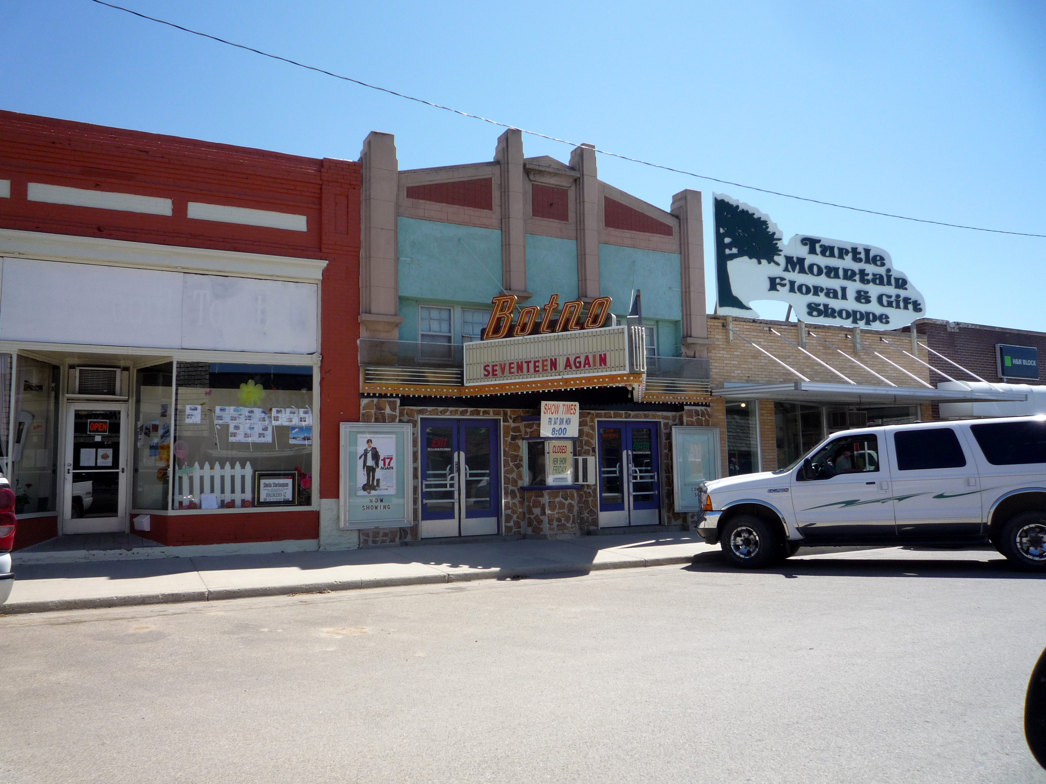 Downtown "Botno" cinema in Bottineau, North Dakota.